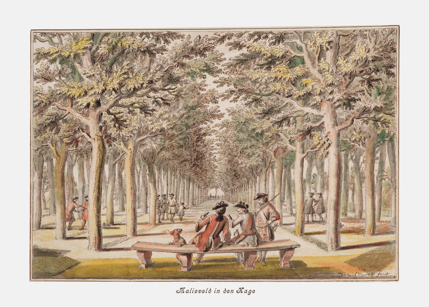 Malieveld (field) in The Hague, the Netherlands